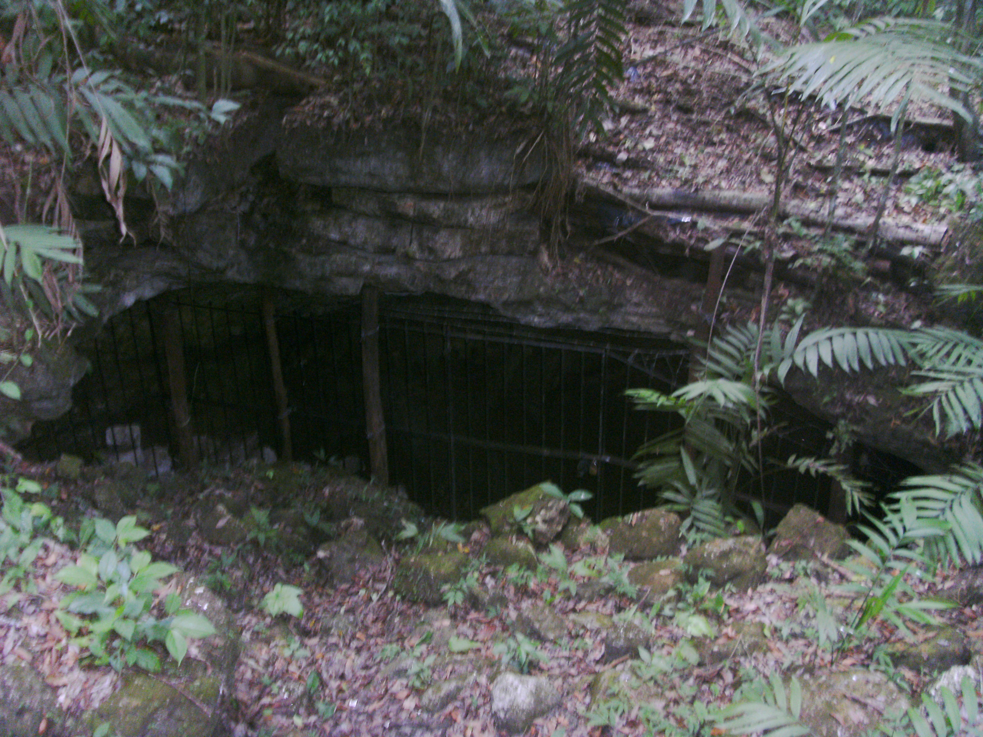 la Cueva, cerca de El Duende.